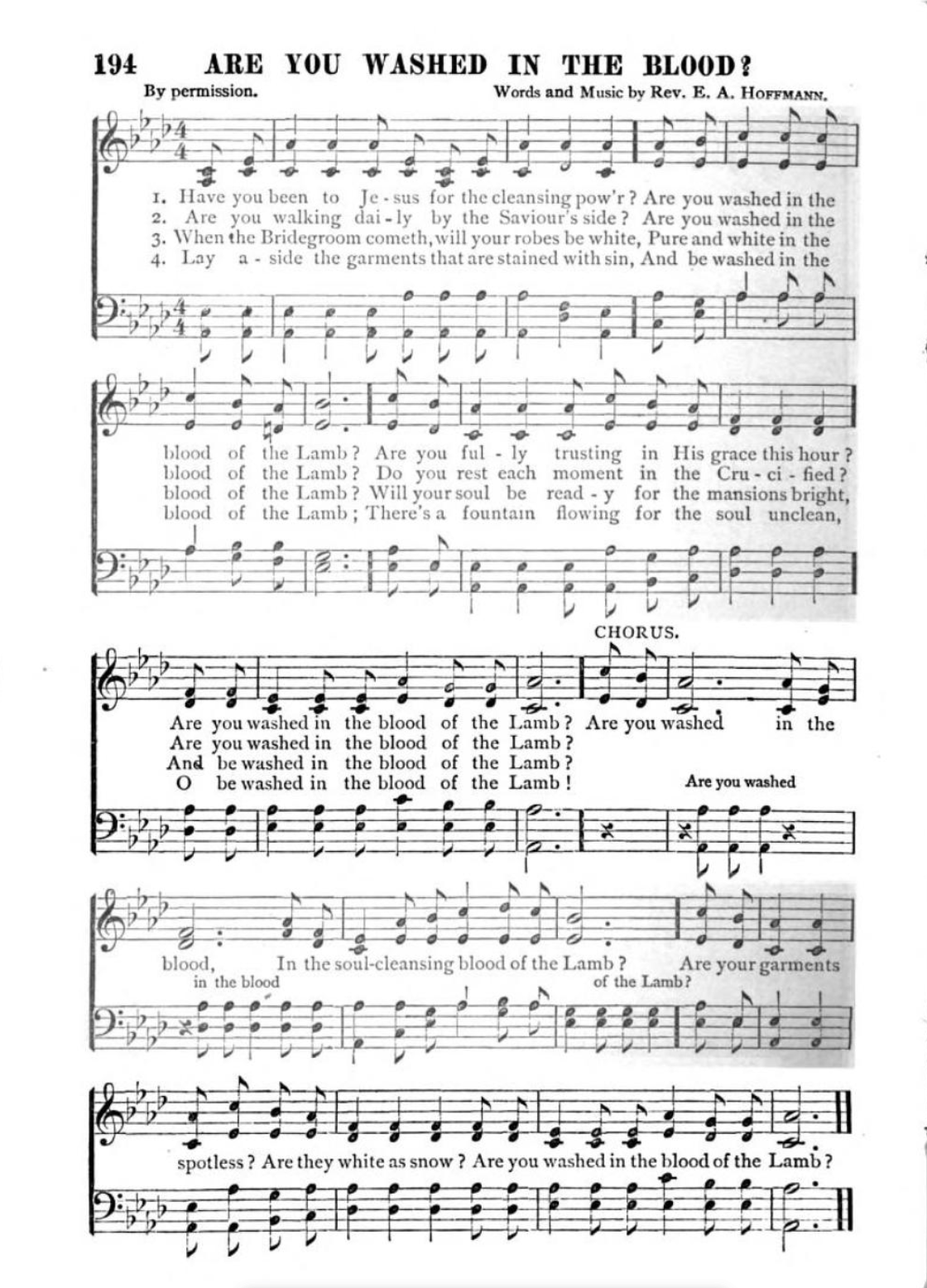 Are You Washed in the Blood of the Lamb music from Gospel Praise Book: A Collection of Choice Gems of Sacred Song by Asa Hull (D.W. Knowles: 1880), pg. 194